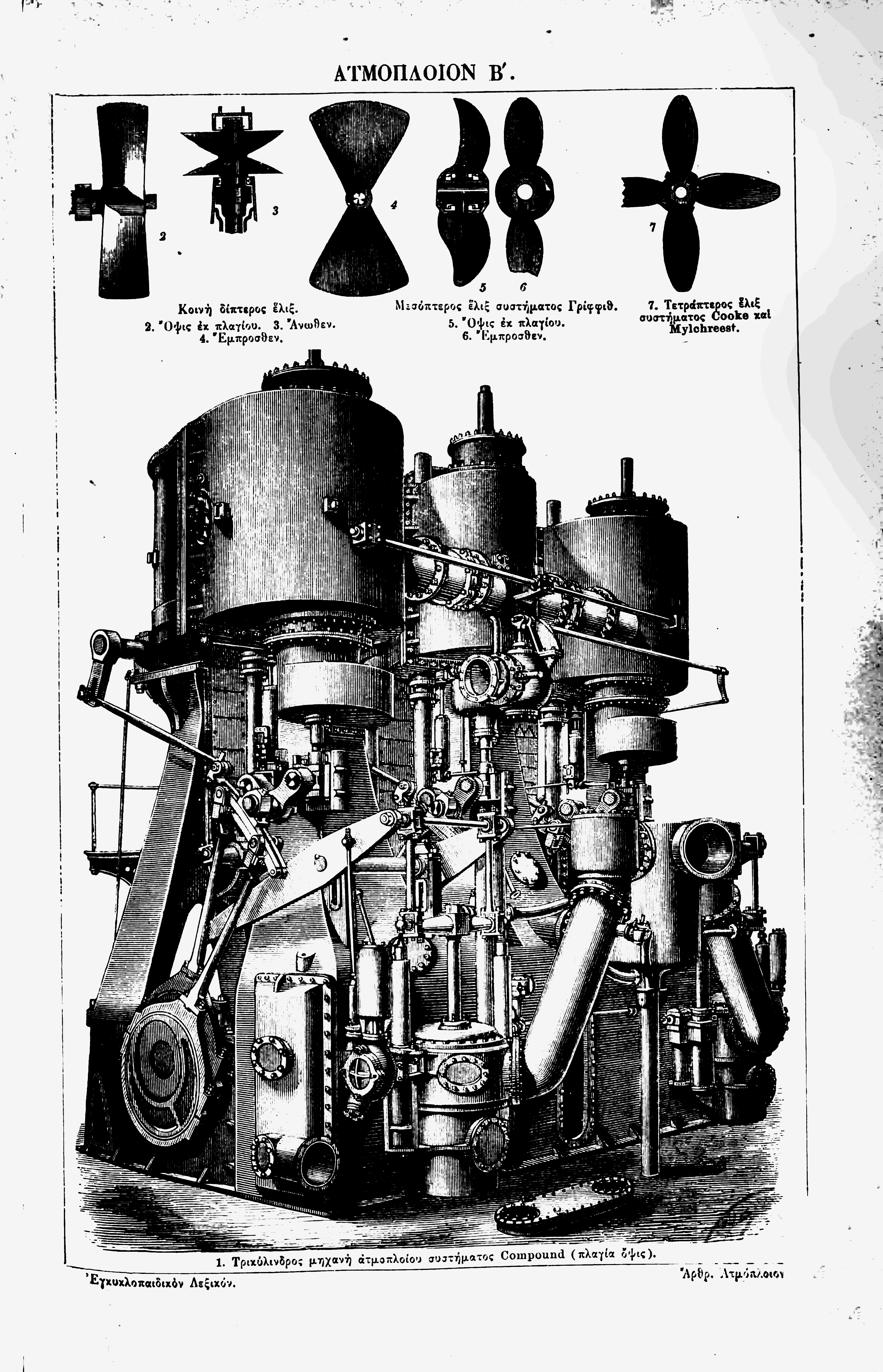 Steamship engine illustration